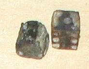 Two backgammon dice recovered from the ship Vasa, sunk in 1628.